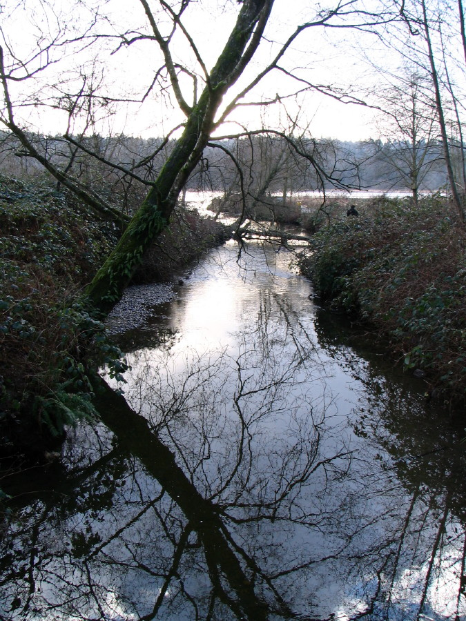 This image was created by me, Flying Penguin of Pacific Spirit Photography ( of Burnaby, BC, Canada